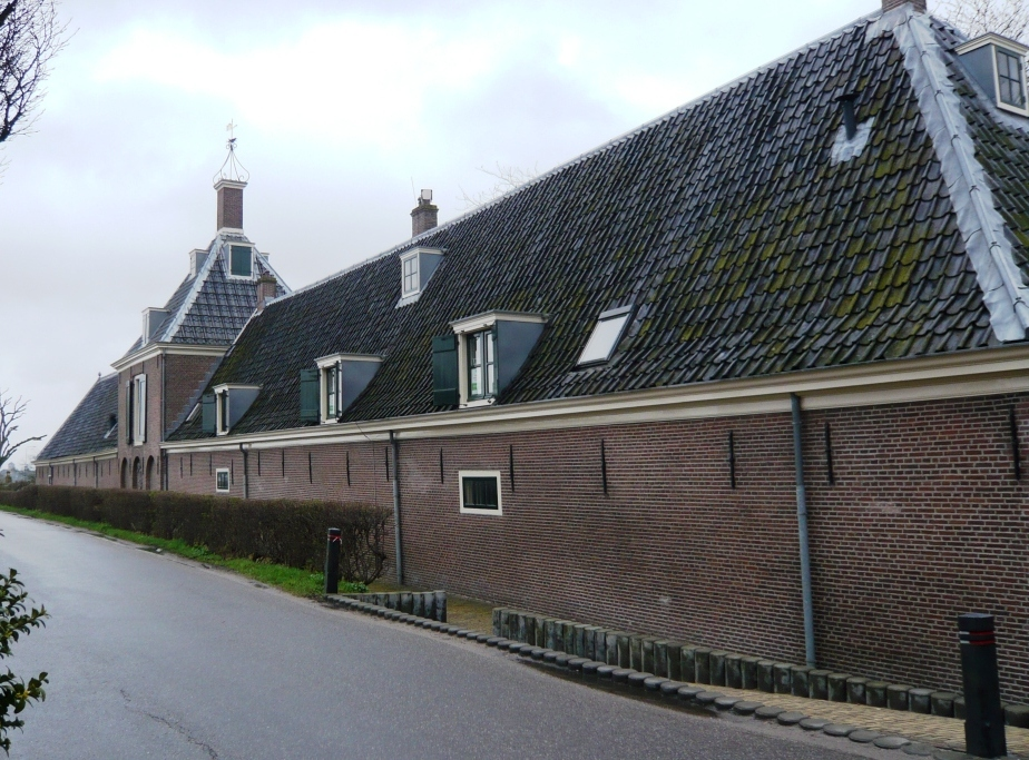 Hoogheemraadschap Rijnland of Spaarndam. This house is now called the Rijnlandshuis. The original Gemeenlandshuis van Rijnland that was near this house, next to the Spaarne sluice gate, on early maps (ca 1600) named "Het Huys te Oosterwaal", was dismantled in favor of this one after 1728.